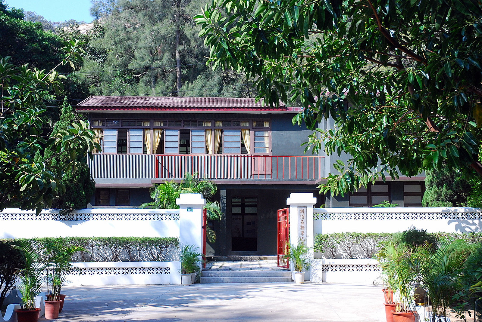 Hu Lien's residence in Kinmen County, Fujian Province, Republic of China (Taiwan).